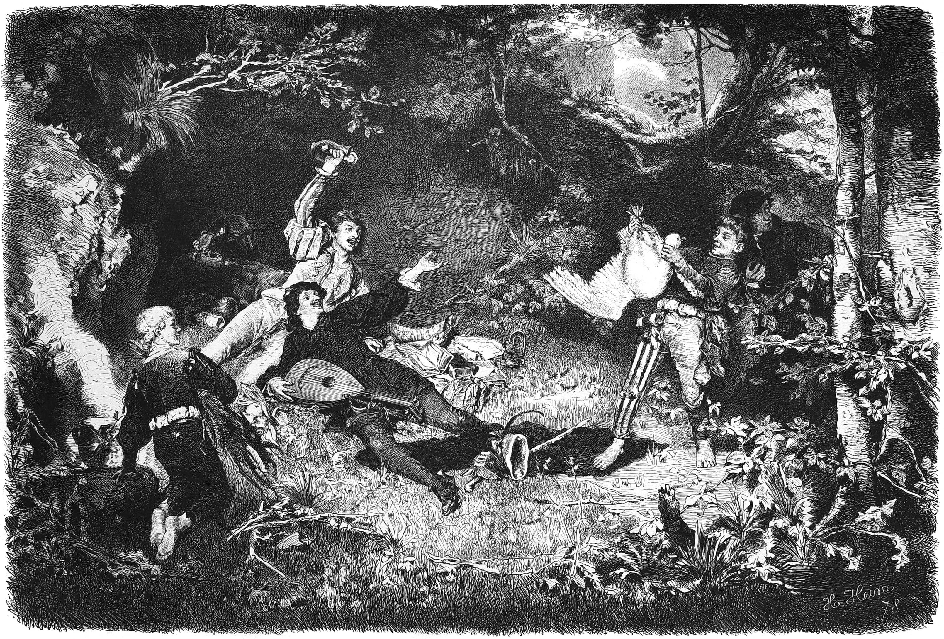 caption: "Fahrende Schüler im Lager.Nach einem Gemälde von H. Heim."